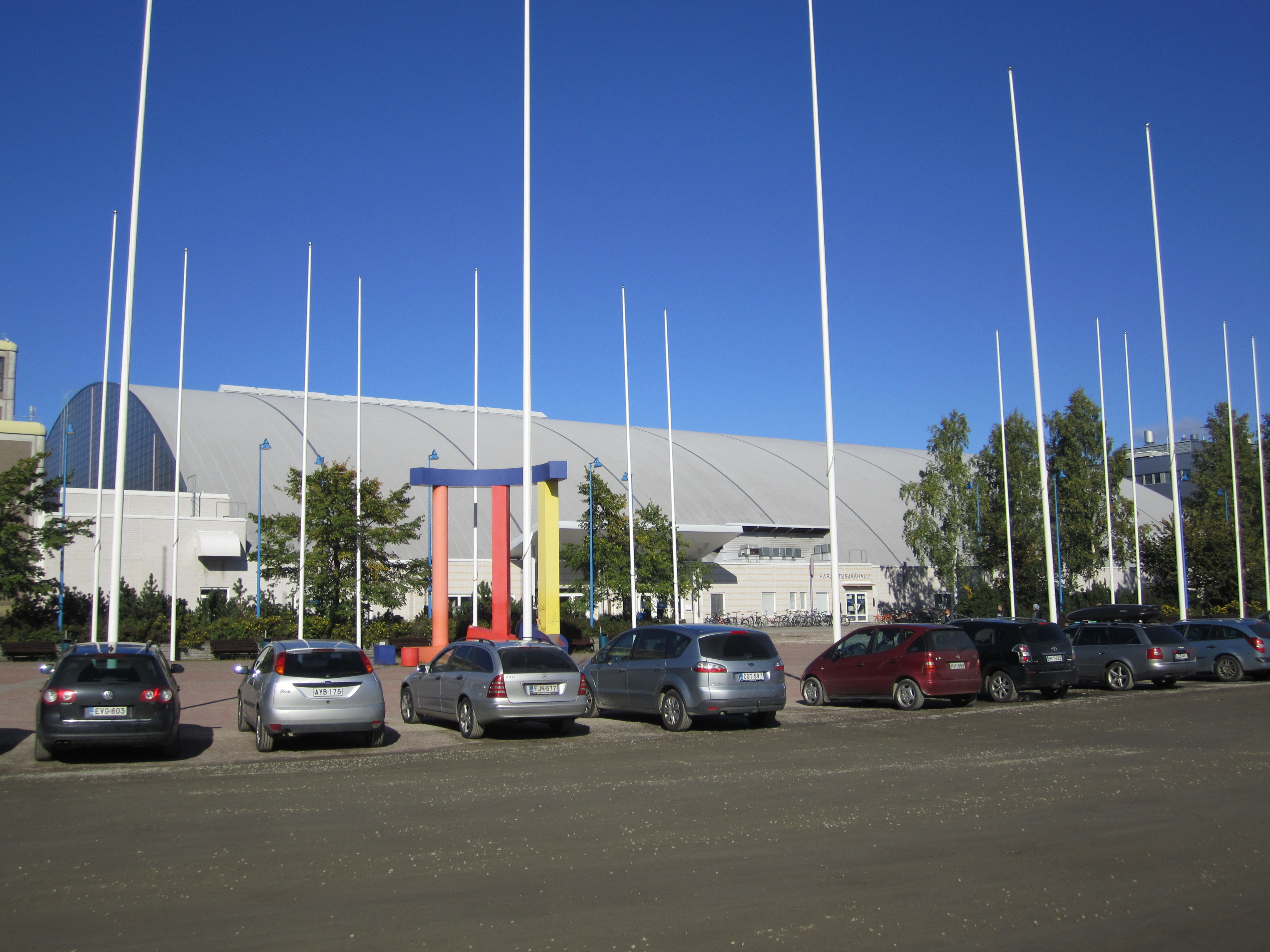 Hipposhalli, Jyväskylä, Finland.